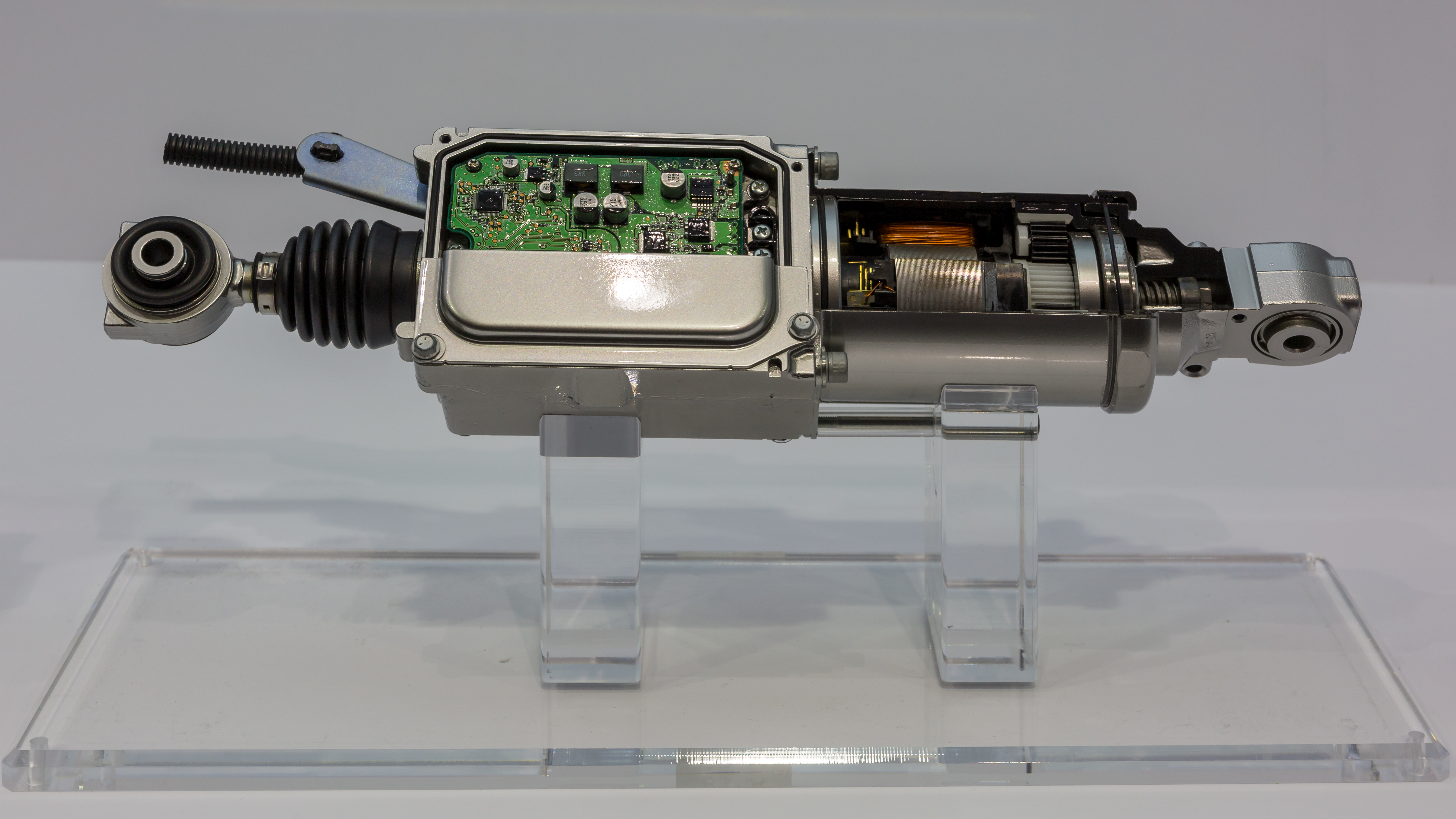 Aisin rear wheel steering actuator and control unit, Mondial Paris Motor Show 2018